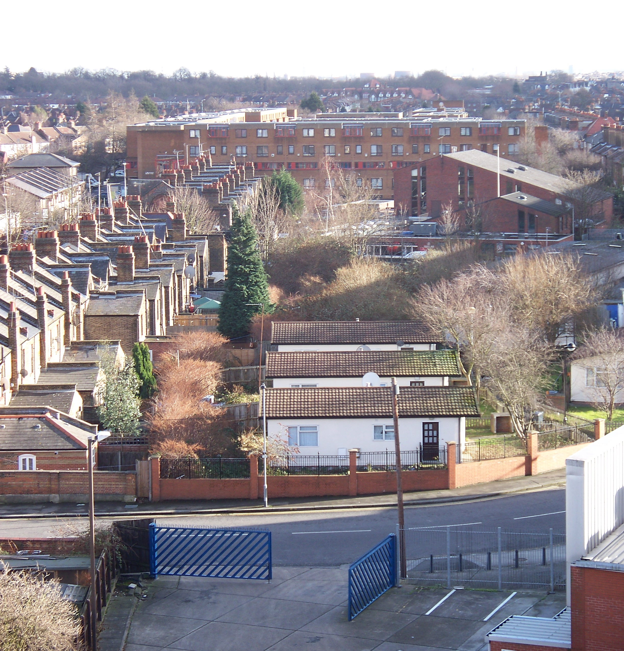 Prefabricated houses on the trackbed of the former Palace Gates Line, London N22; the large building in the background is "The Sandlings", also on the trackbed. Photograph taken in a public location in the UK of a building on permanent public display, and exempt from copyright under Section 62 of the Copyright Designs & Patents Act 1988 ("it is not an infringement of copyright to film, photograph, broadcast or make a graphic image of a building, sculpture, models for buildings or work of artistic craftsmanship if that work is permanently situated in a public place or in premises open to the public")